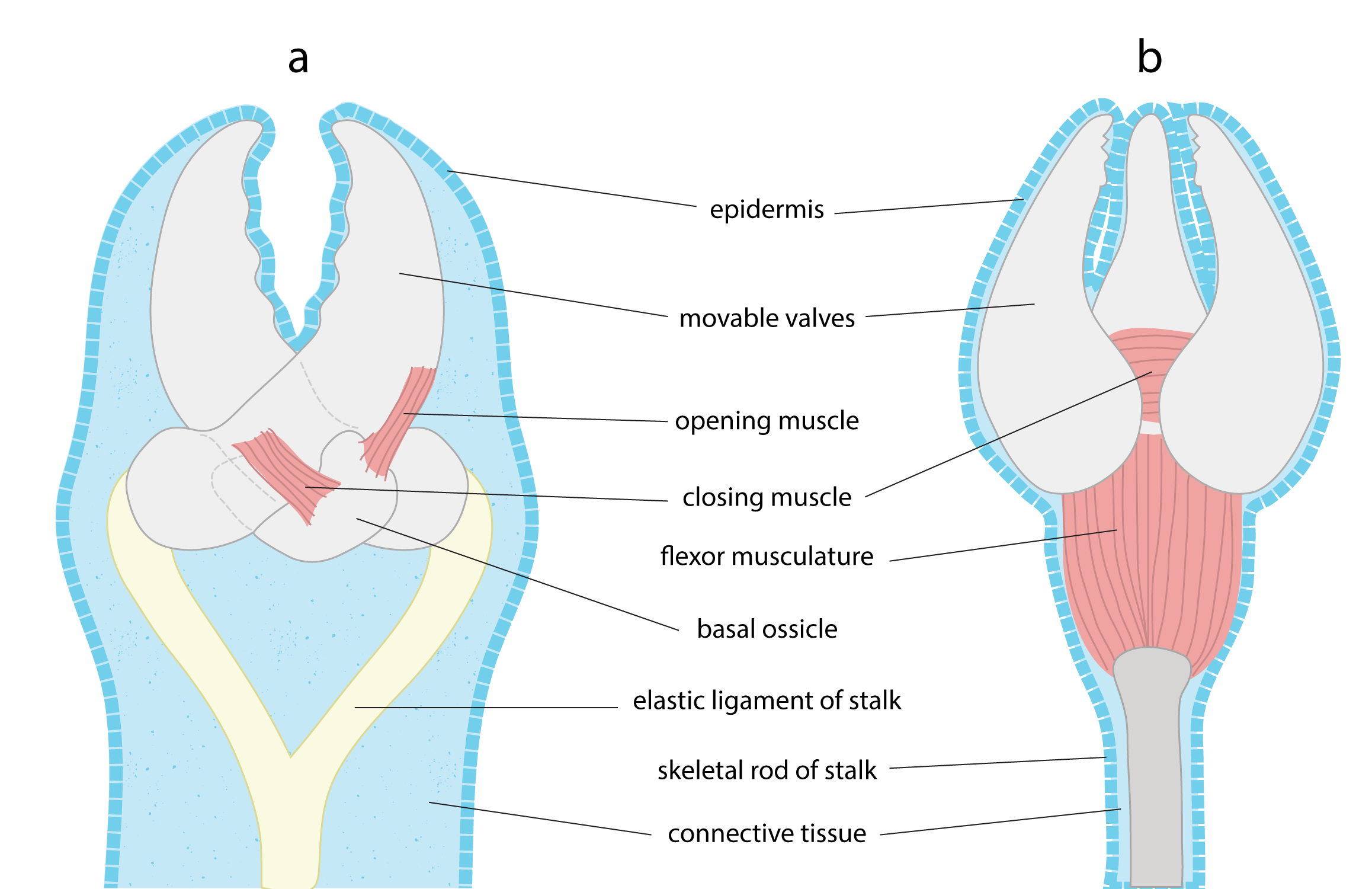 Labeled illustration of generalized pedicellaria of (a) Asteroid and (b) Echinoid Echinoderms.